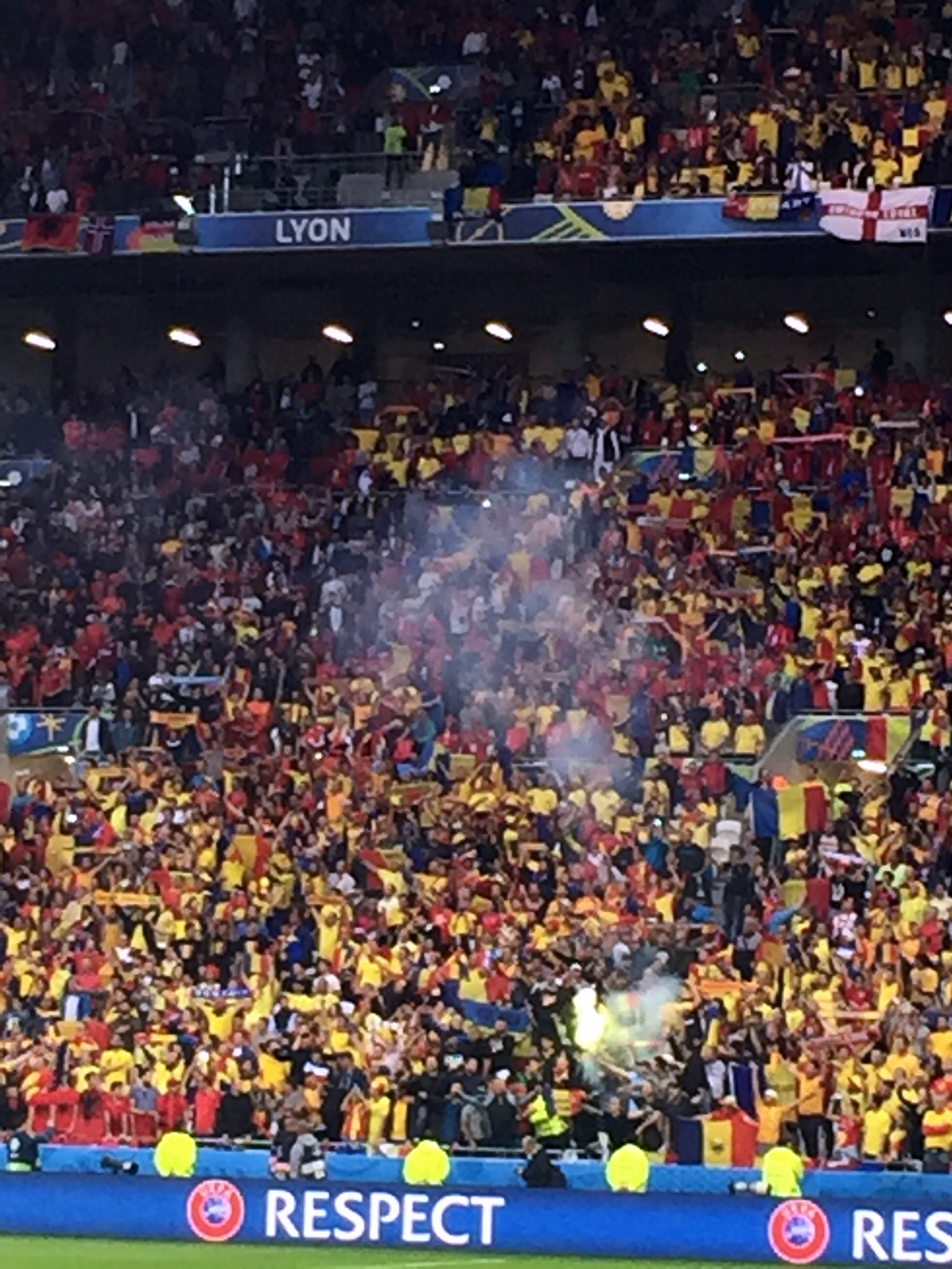 Romania-Albania (2016-06-19)